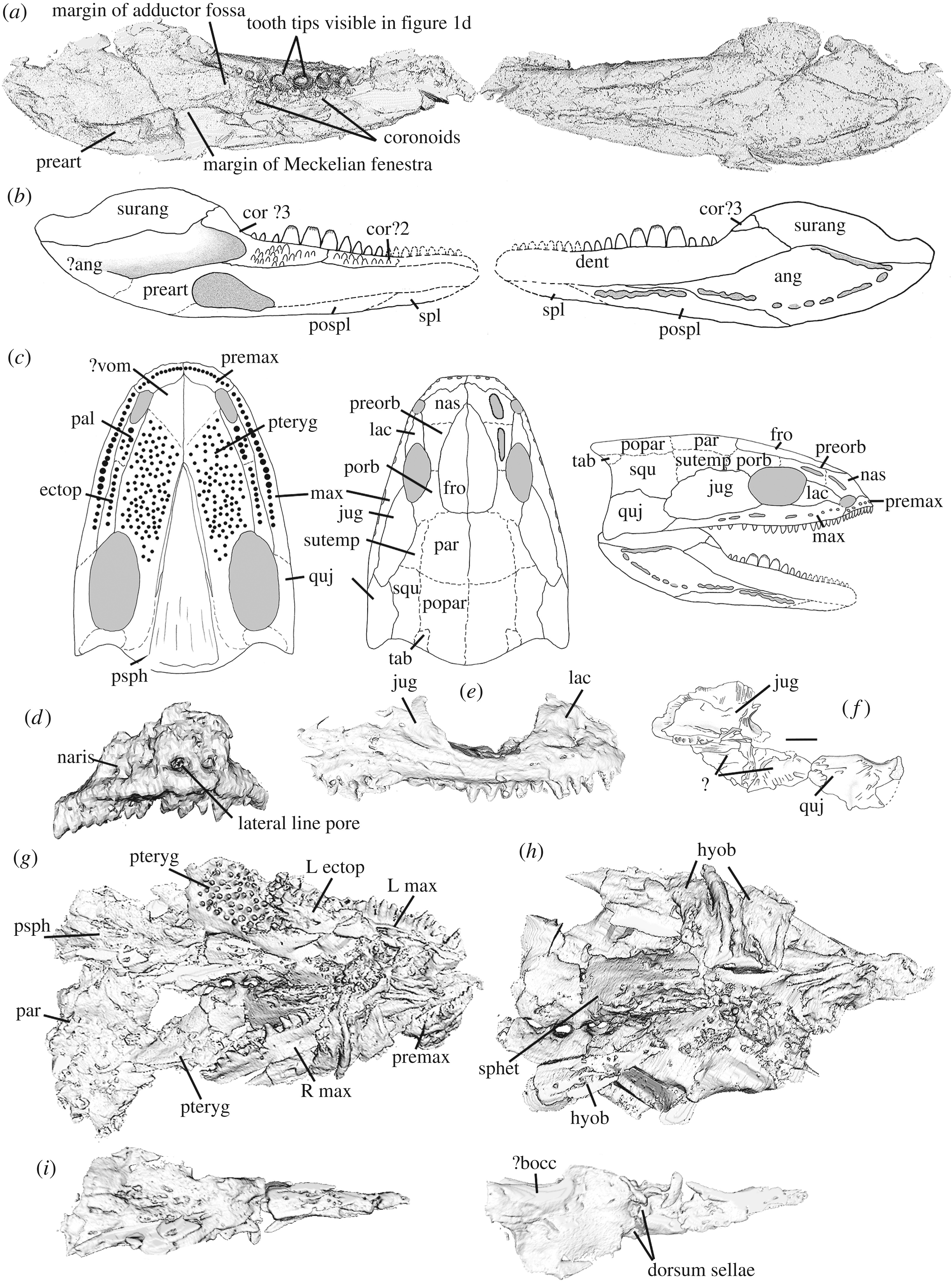 Acherontiscus caledoniae Micro-CT images and skull and lower jaw reconstructions. (a) Left lower jaw ramus from micro-CT scan, mesial surface at left, lateral surface at right. (b) Left lower jaw ramus reconstructions mesial surface at left, lateral surface at right. (c) Skull reconstructions, palate at left, skull roof centre, lateral view at right. (d) Left premaxilla. (e) Right maxilla, part of the jugal and other cirumorbital bones. (f) Camera lucida drawing of skull bones not visible in the scan. Scale bar 5 mm. (g) Micro-CT image of ventral surface of the skull with the lower jaw removed. (h) Micro-CT image of ventral surface of the skull with the lower jaw, marginal dentitigerous bones, and the parasphenoid removed. (i) Parasphenoid, ventral view at left, dorsal view at right. Figures except (f) not to scale. Abbreviation: ?bocc, ?basioccipital; ectop, ectopterygoid, hyob, hyobranchial elements; jug, jugal, L, left, lac, lacrimal; max, maxilla; par, parietal; preart, prearticular; premax, premaxilla; psph, parasphenoid; pteryg, pterygoid; quj, quadratojugal; R, right; sphet, sphenethmoid.